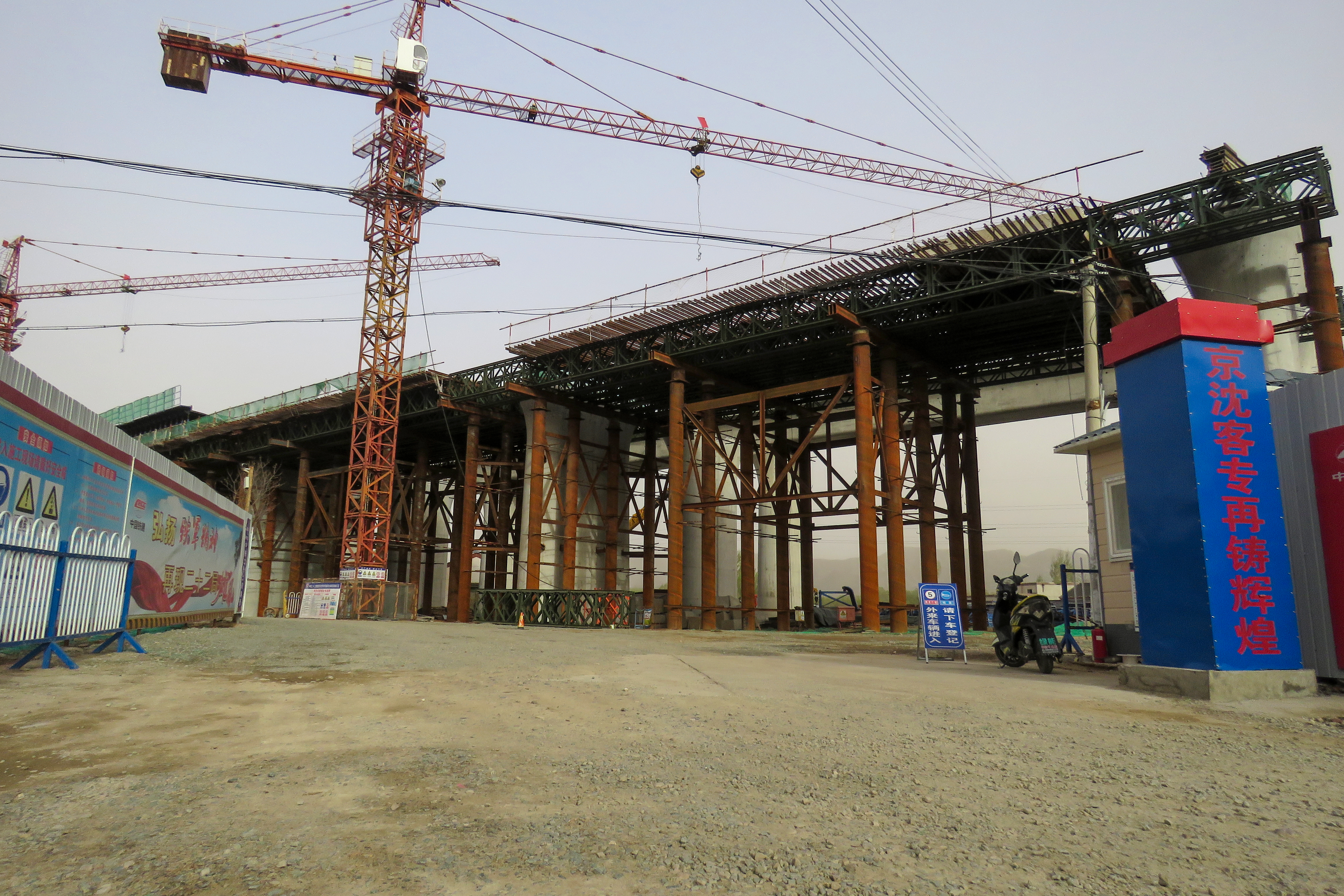 South of Nanhelu Bridge, this is the section from Pier 651 to Pier 658. Now, where could the station square be?